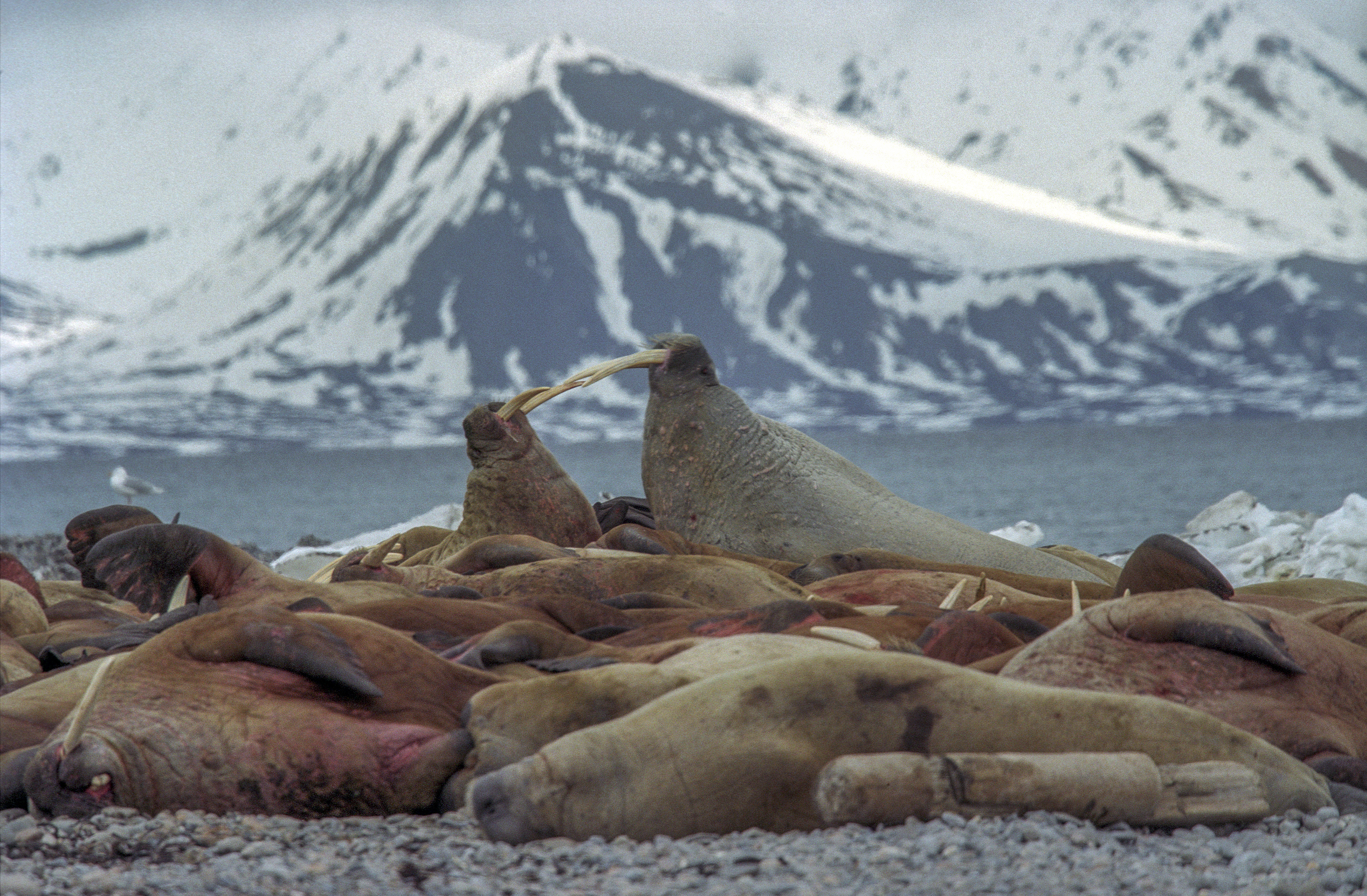 Spitsbergen, Prins Karl Forland, walruses colony